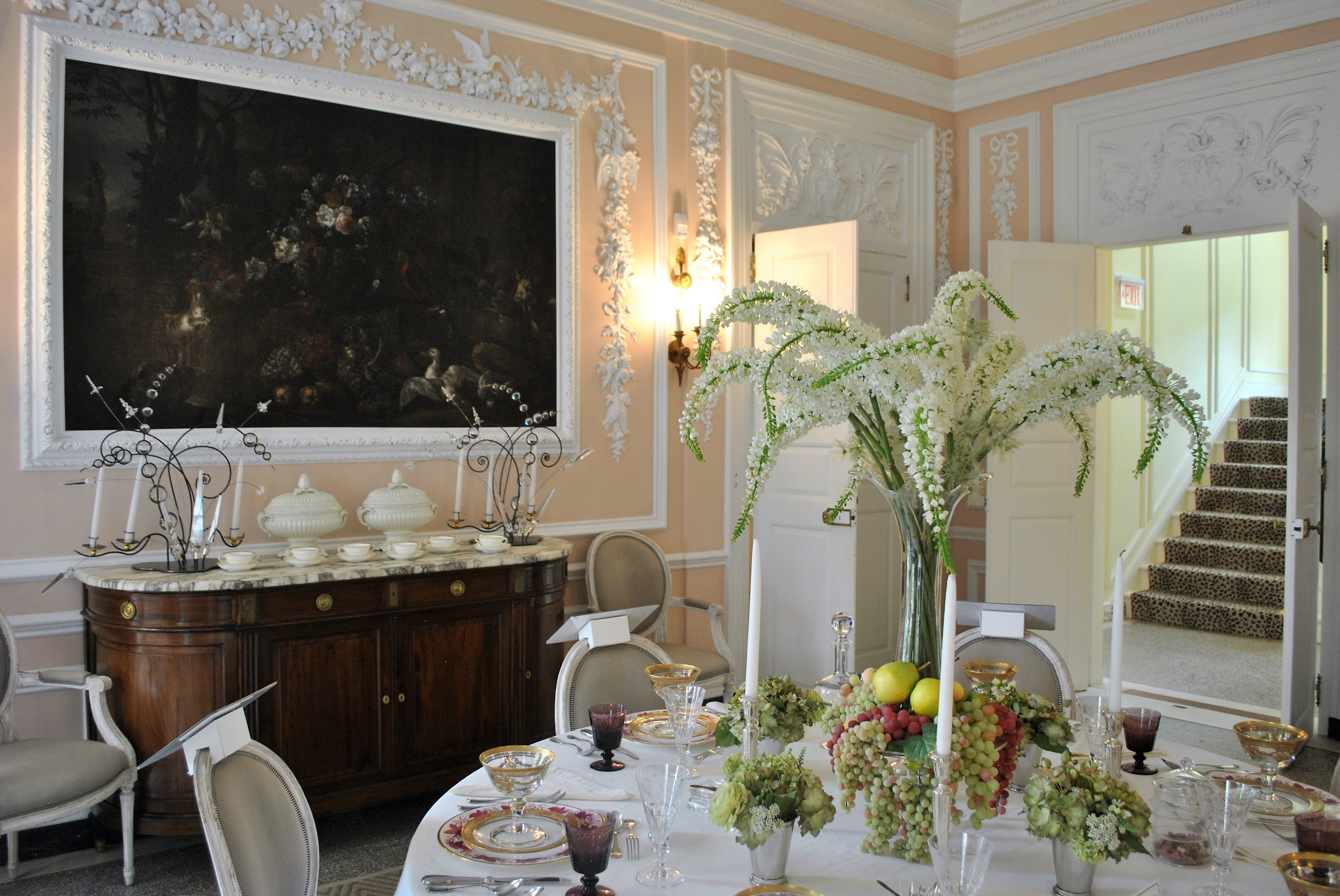 Image originally published in Queer Places: Retracing the Steps of LGBTQ people around the World Authored by Elisa Rolle